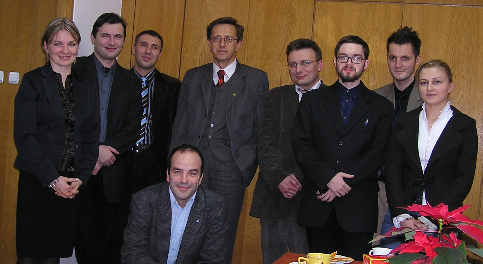 co-workers of Pracownia Kultury i Myśli Politycznej UAM - Uniwersytet im. Adama mickiewicza (The Department of Political Culture and Thought' Adam Mickiewicz University (AMU) Poznań (Poland)